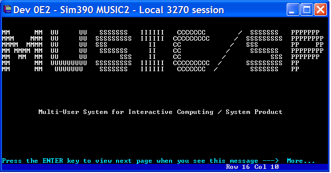 Screen shot of TN3270 session on IBM Mainframe MUSIC/SP Operating system.